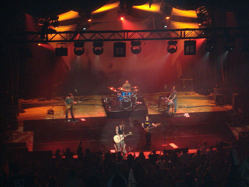 Picture of the Goo Goo Dolls performing at the Embassy Theatre in Fort Wayne, Indiana was taken by me on Wednesday, March 14, 2007.